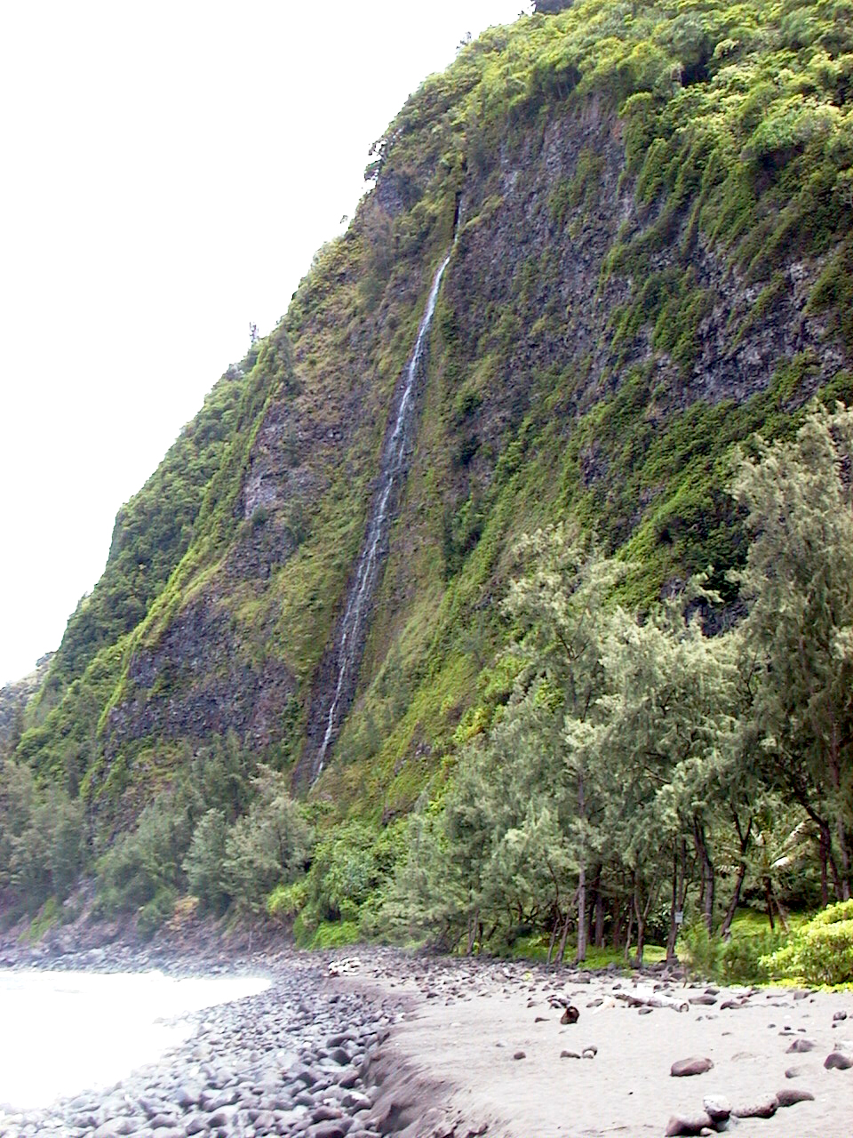 Waterfalls in Waipi'o Valley